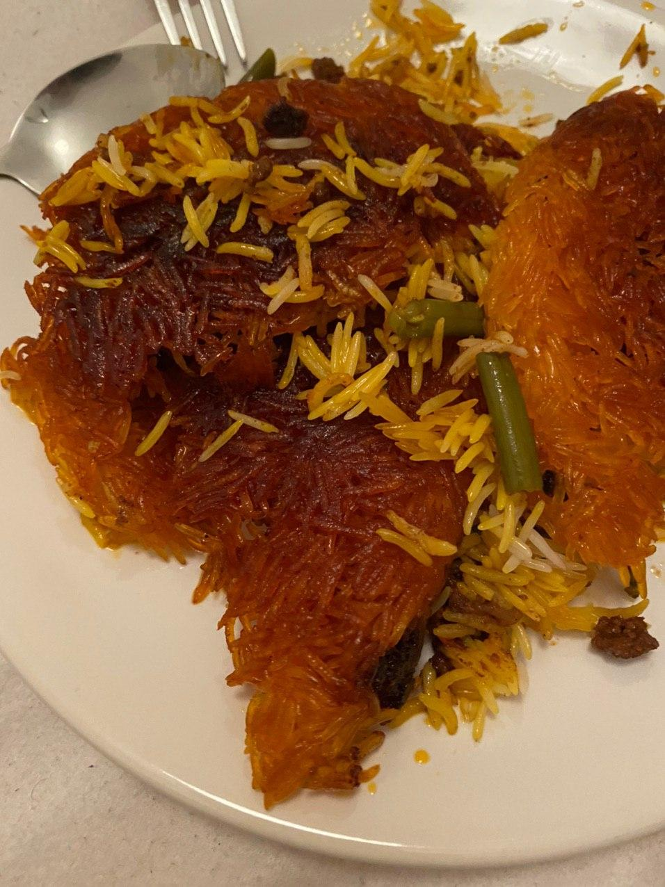 بشقاب لوبیا پلو با ته دیگ